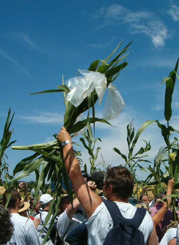 25th July 2004 : Transgenic corn uprooted by a member of the French organization "les faucheurs volontaires".